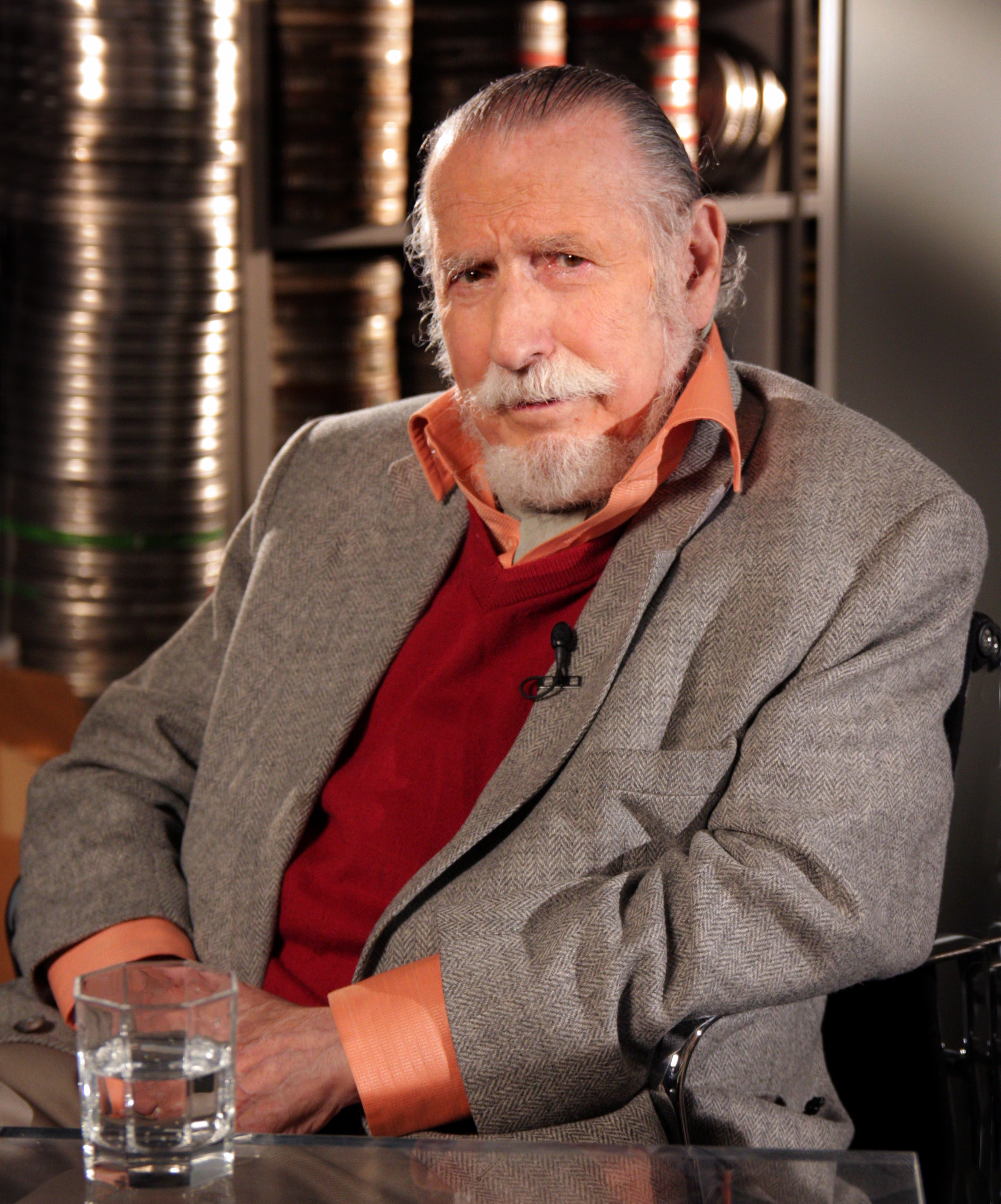 Georg Stefan Troller 2011 im ZDF bei VOR 30 JAHREN